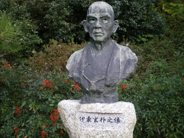 Bust of Itō Genboku in the garden of his former house, Kanzaki, Saga prefecture